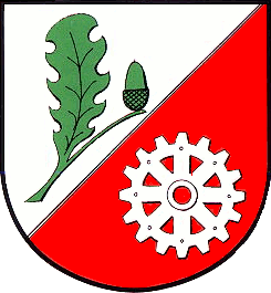 Coat of arms of the municipality Lohe-Rickelshof in Schleswig-Holstein, Germany.